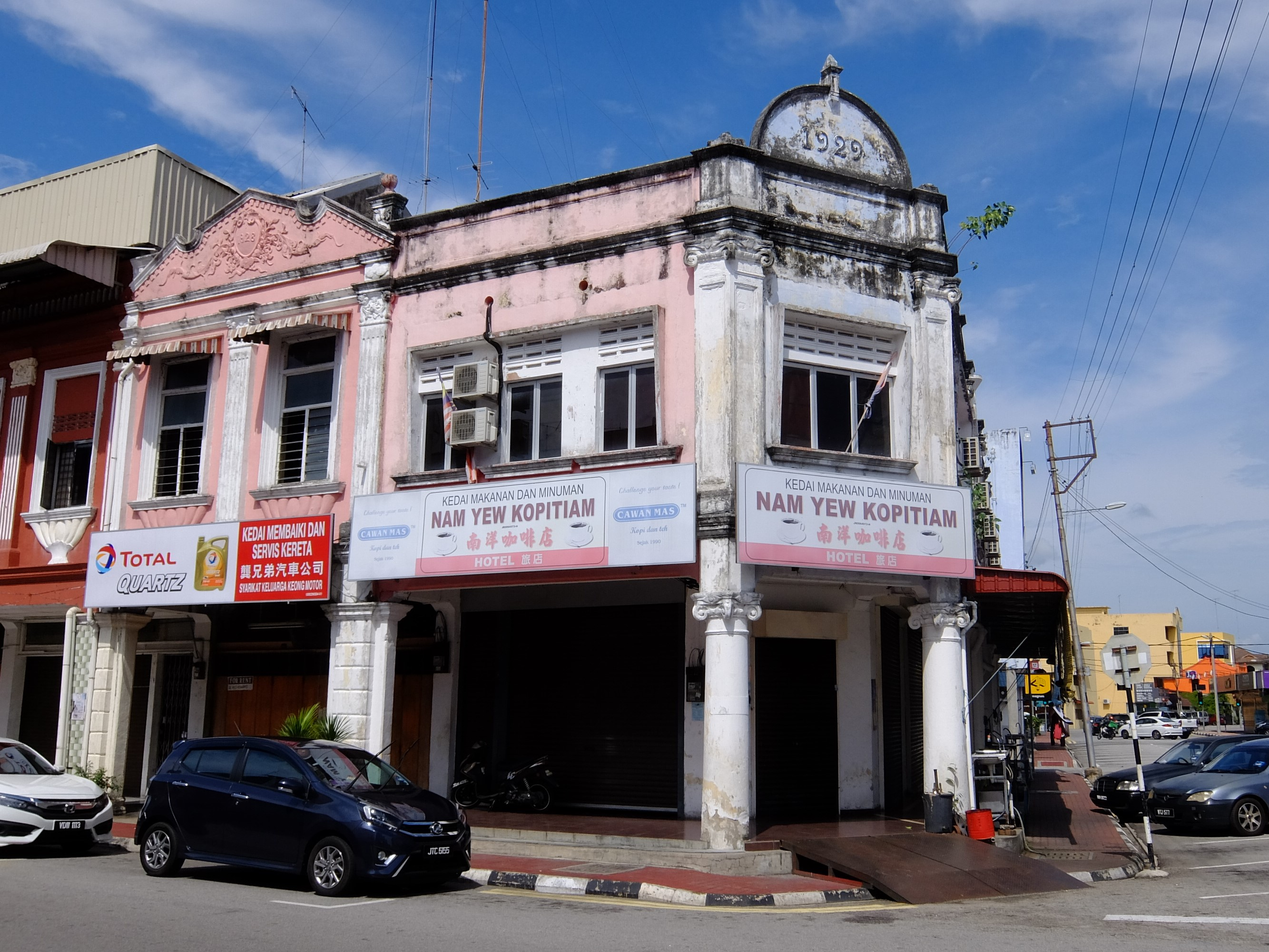 Nam Yew Kopitiam, Bandar Maharani, Muar, Johor, Malaysia